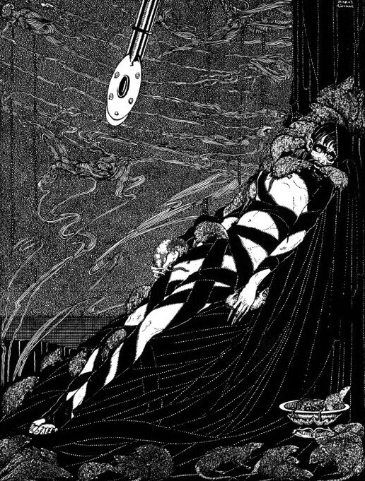 Illustration for Edgar Allan Poe's story "The Pit and the Pendulum" by Harry Clarke (1889-1931), first printed in 1919.